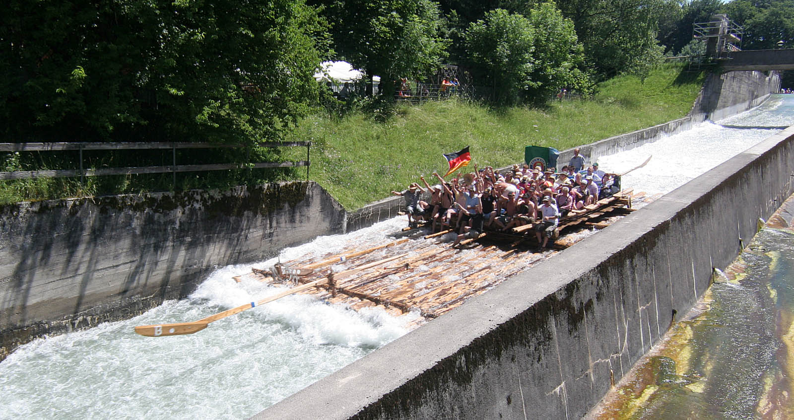 Europe's greatest raft slide at Strasslach-Dingharting with a length of 365 meters